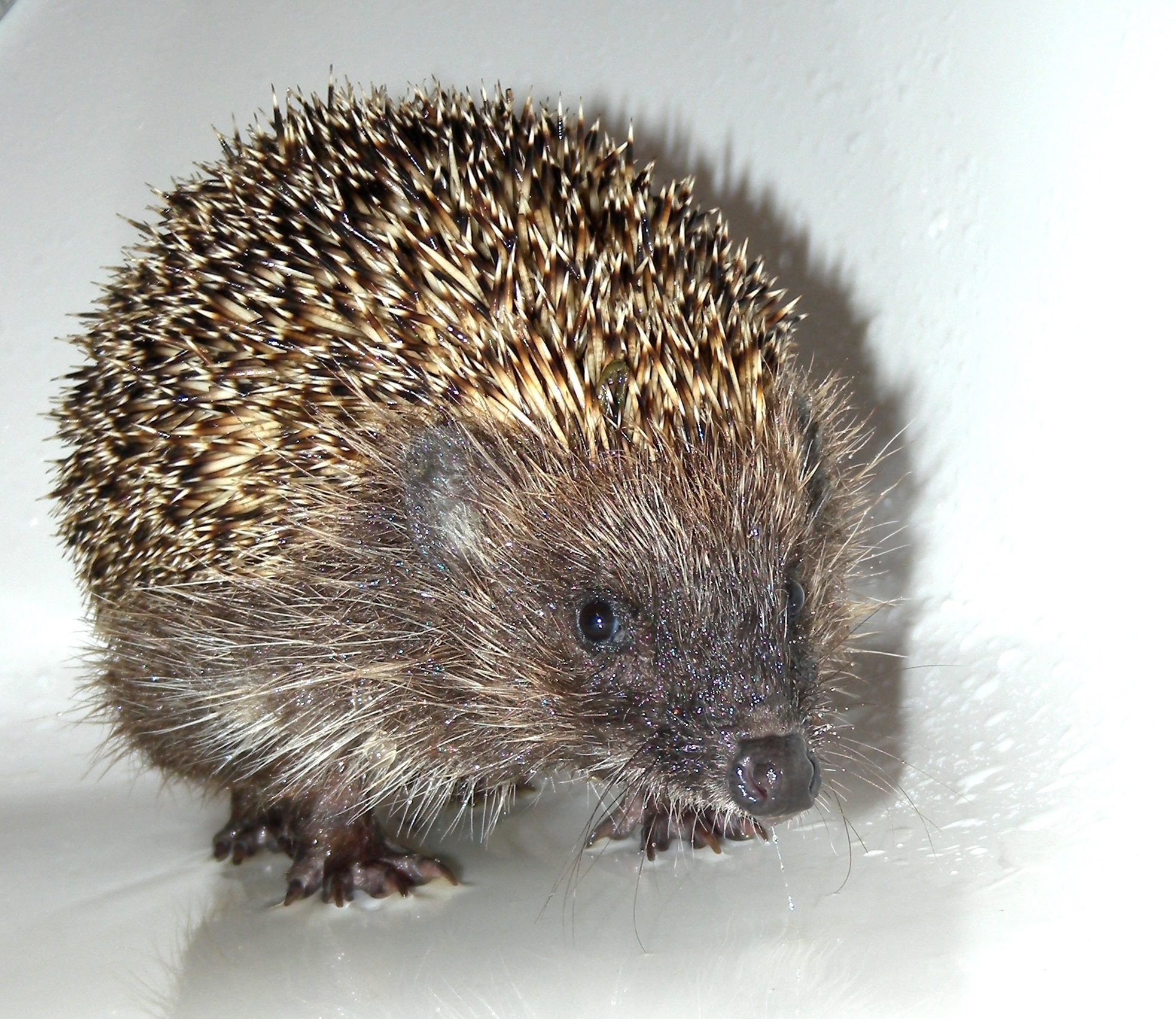 Erinaceus roumanicus